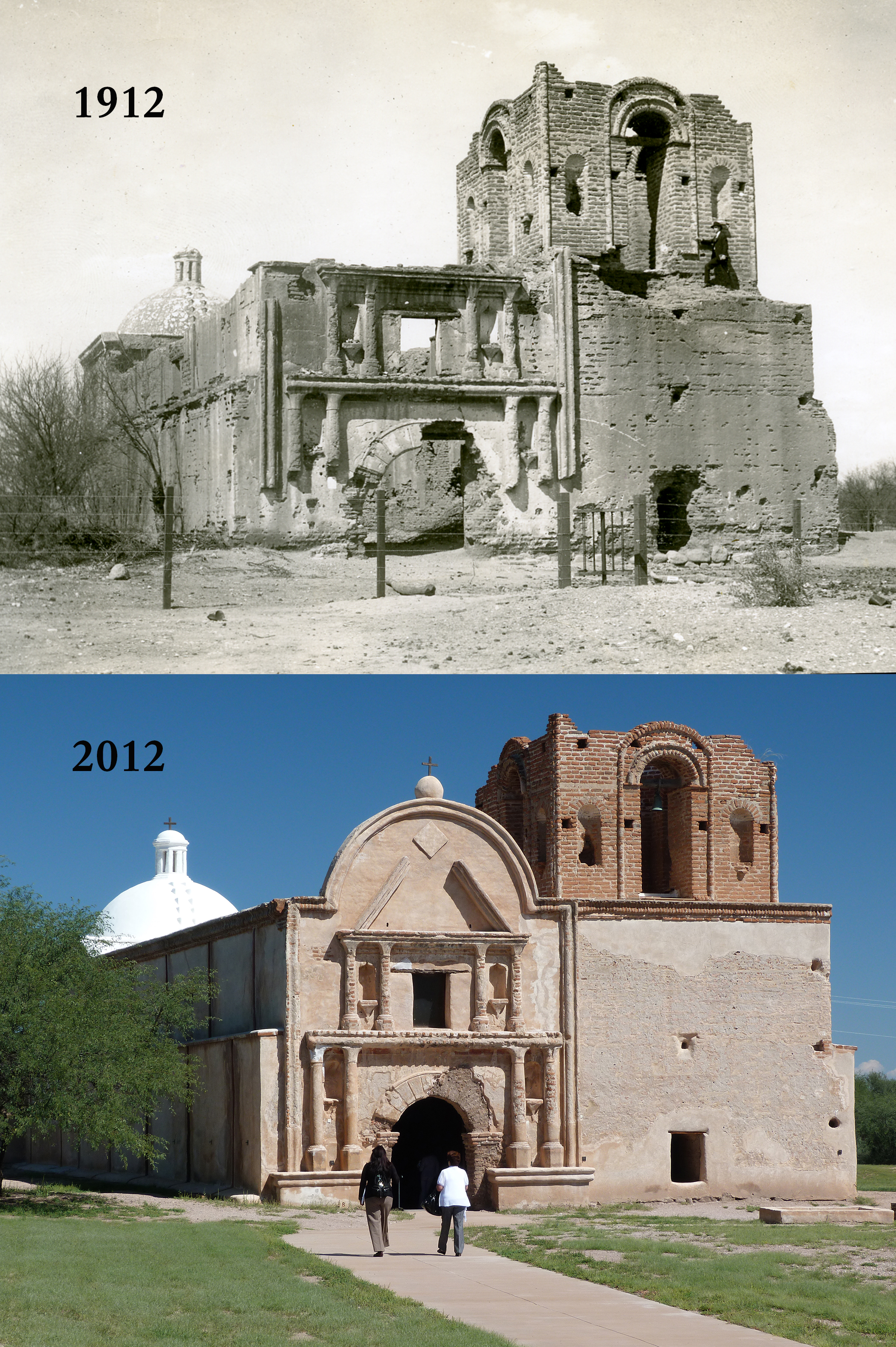 "Restoration and preservation of the church façade have been constant projects of the National Park Service for the past 100 years"